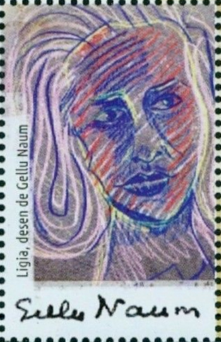 Romanian avant-garde writers